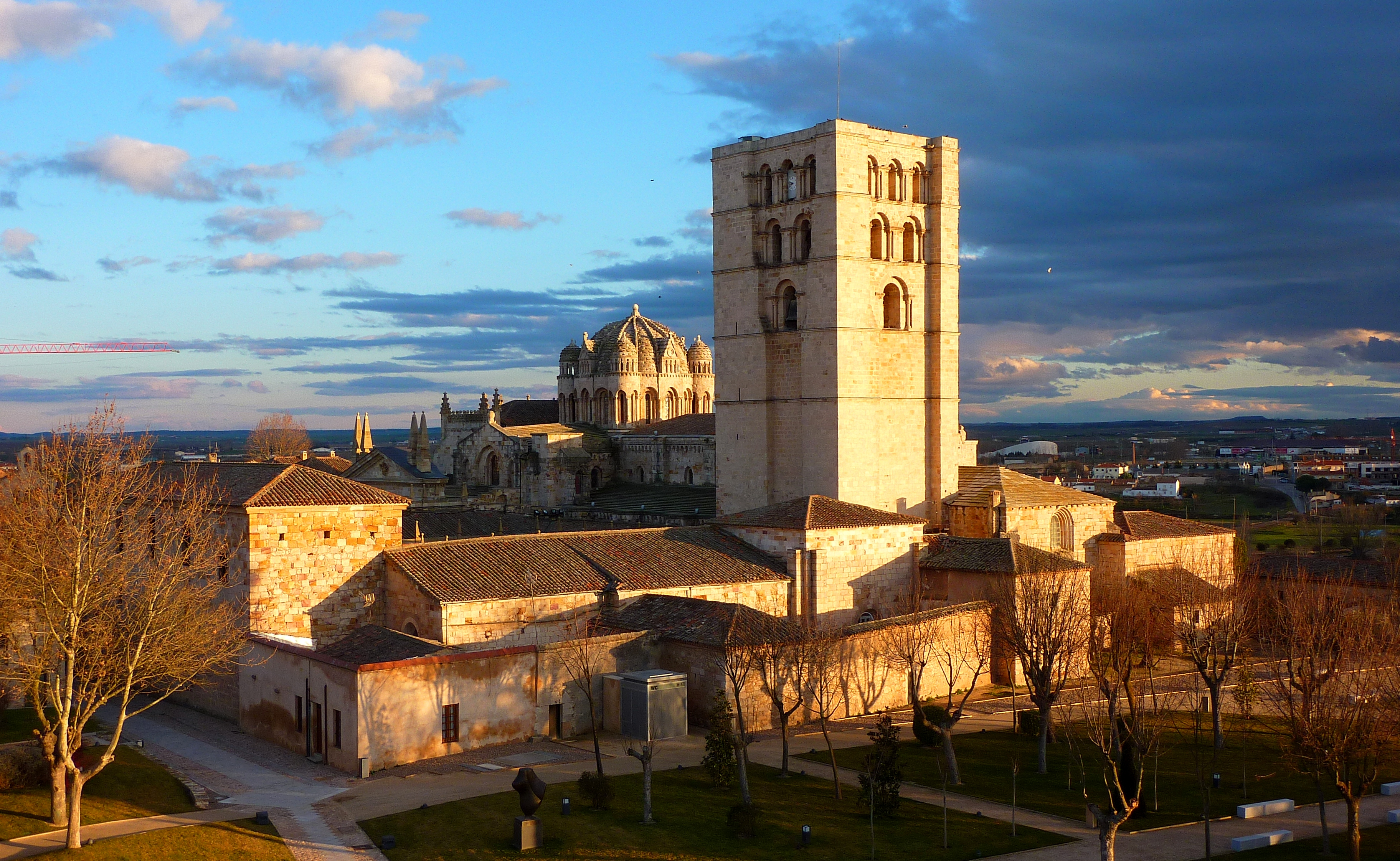 Zamora Cathedral as seen from the Castle.